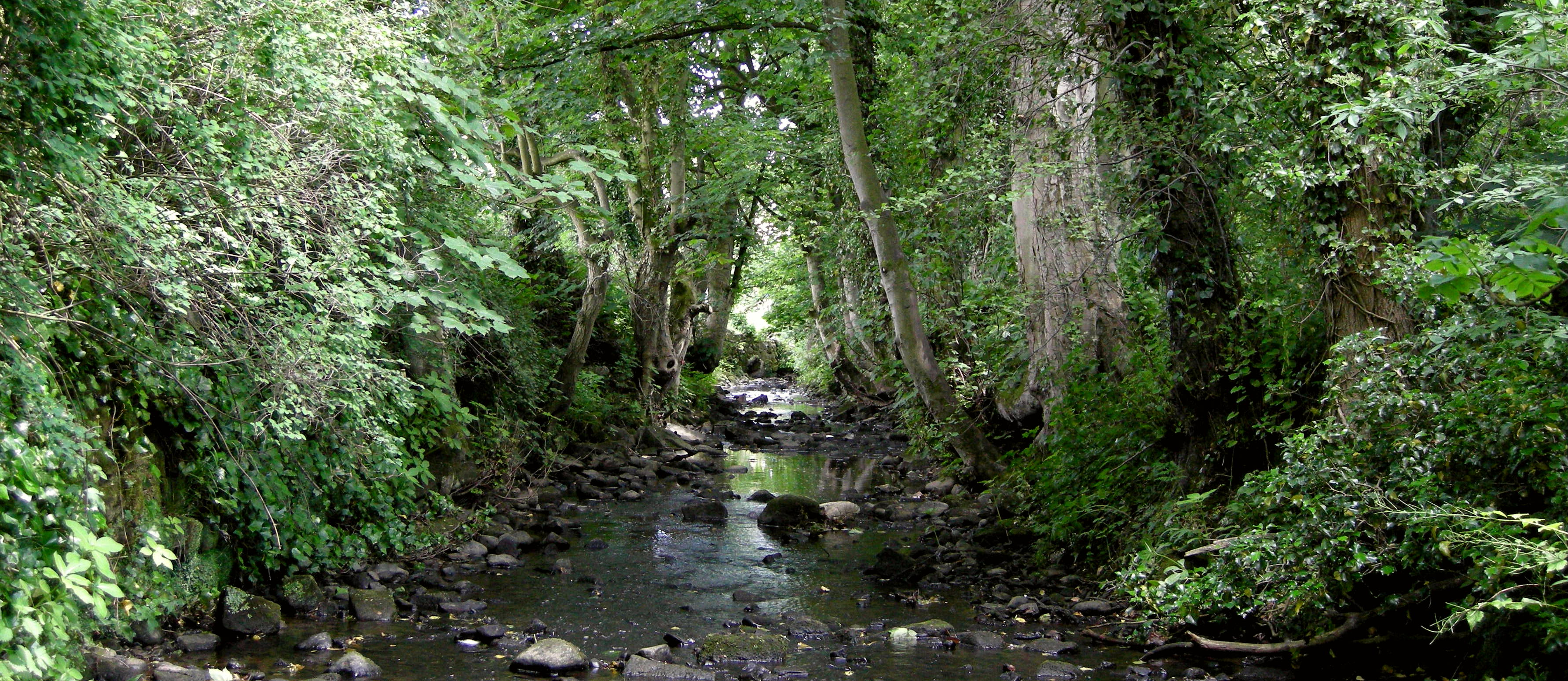 View of Crimple Beck from under bridge at Burn Bridge, Harrogate, North Yorkshire, England.